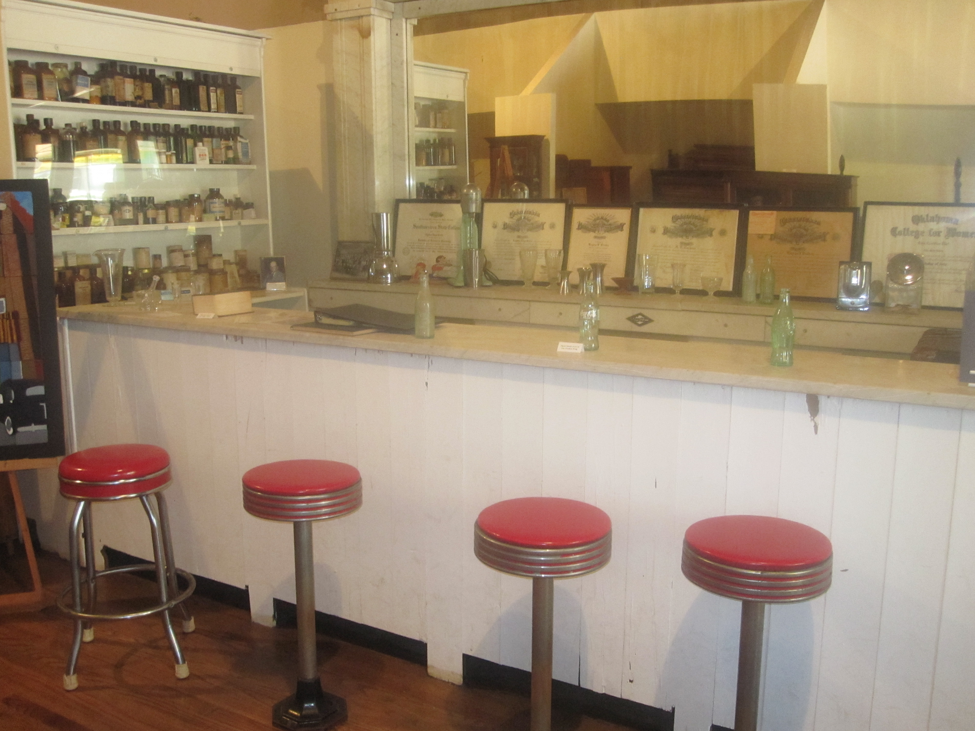 I took photo with Canon camera in Wellington, TX.